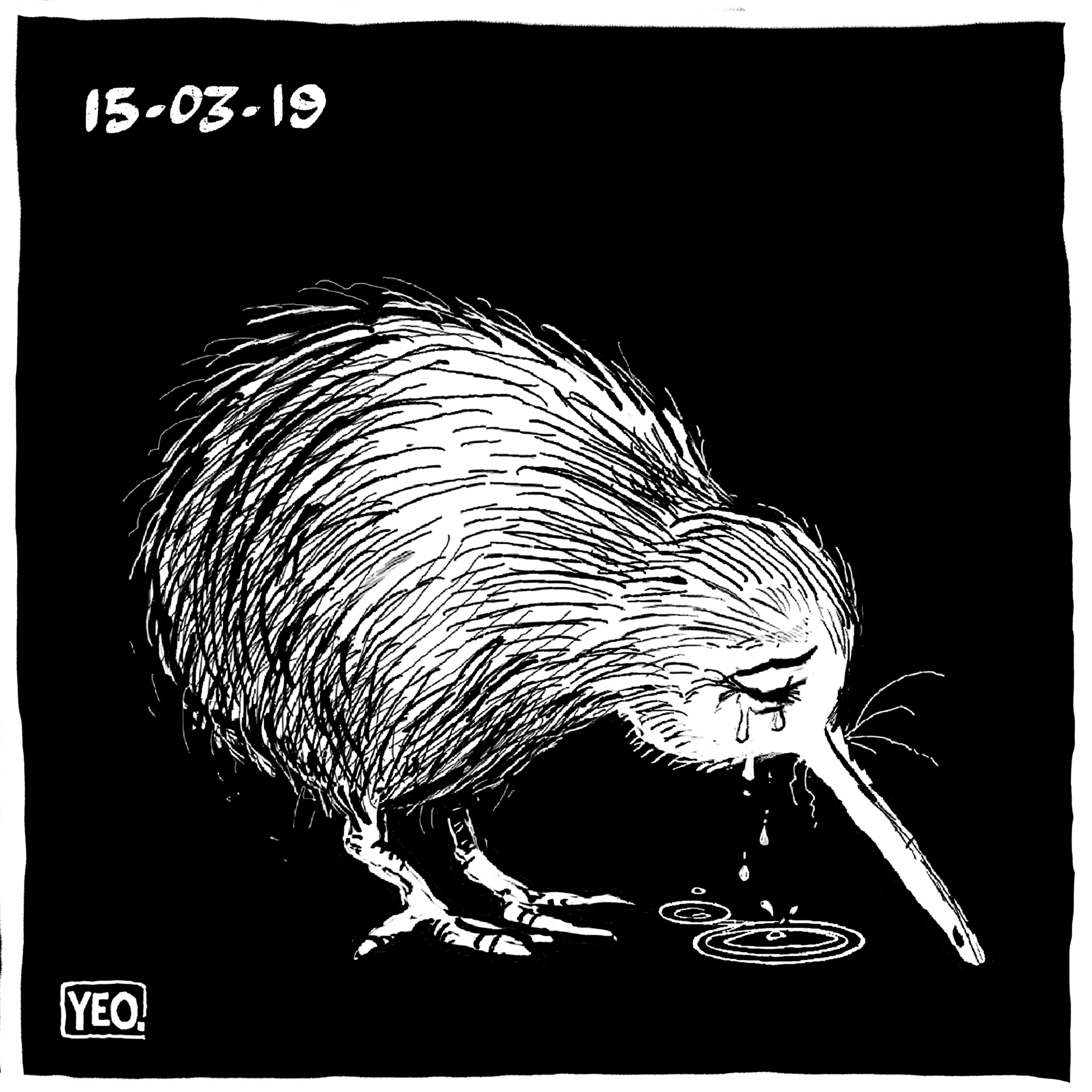 Cartoon of a crying kiwi, drawn by Invercargill cartoonist Shaun Yeo in response to the 50 people killed in the Christchurch mosque shootings of 15 March 2019. This cartoon was widely printed and shared in the aftermath of the attacks, and was described as "perfectly capturing this shocking and horrendous tragedy".